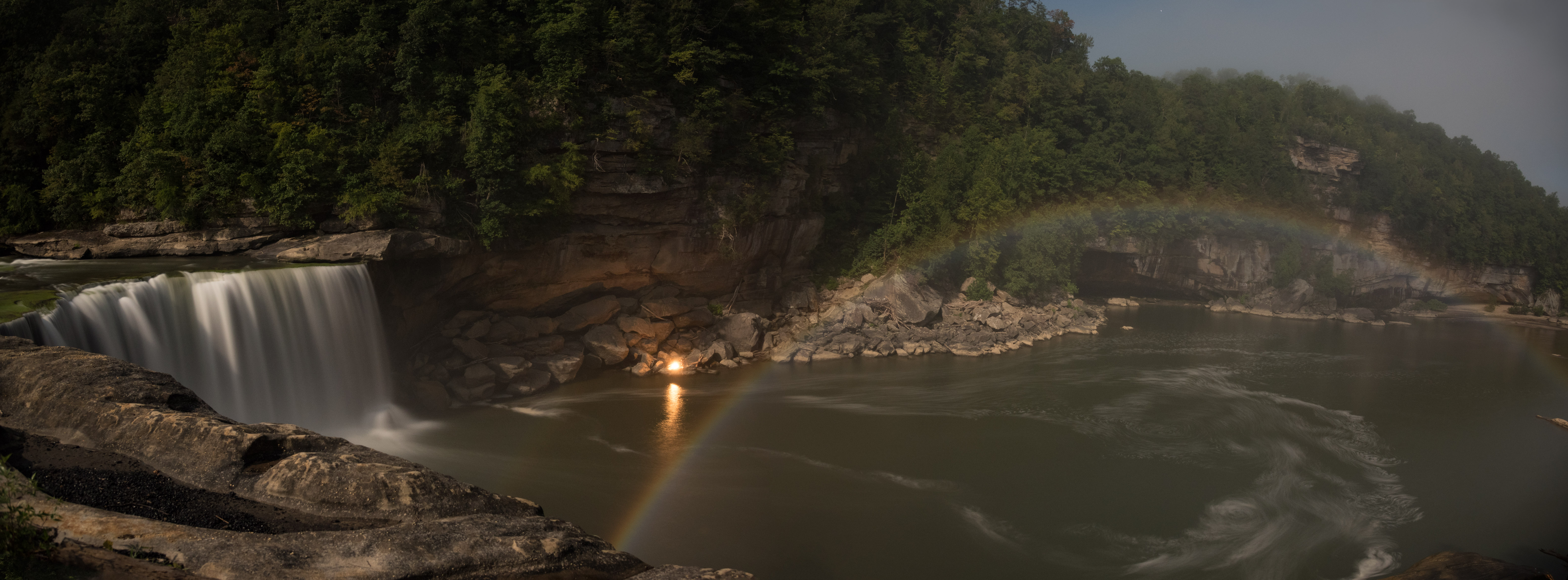 Moonlight photograph of the Moonbow at Cumberland Falls State Park in Kentucky. The light down by the river edge is a fisherman's lantern. Photograph by William V. Cox.